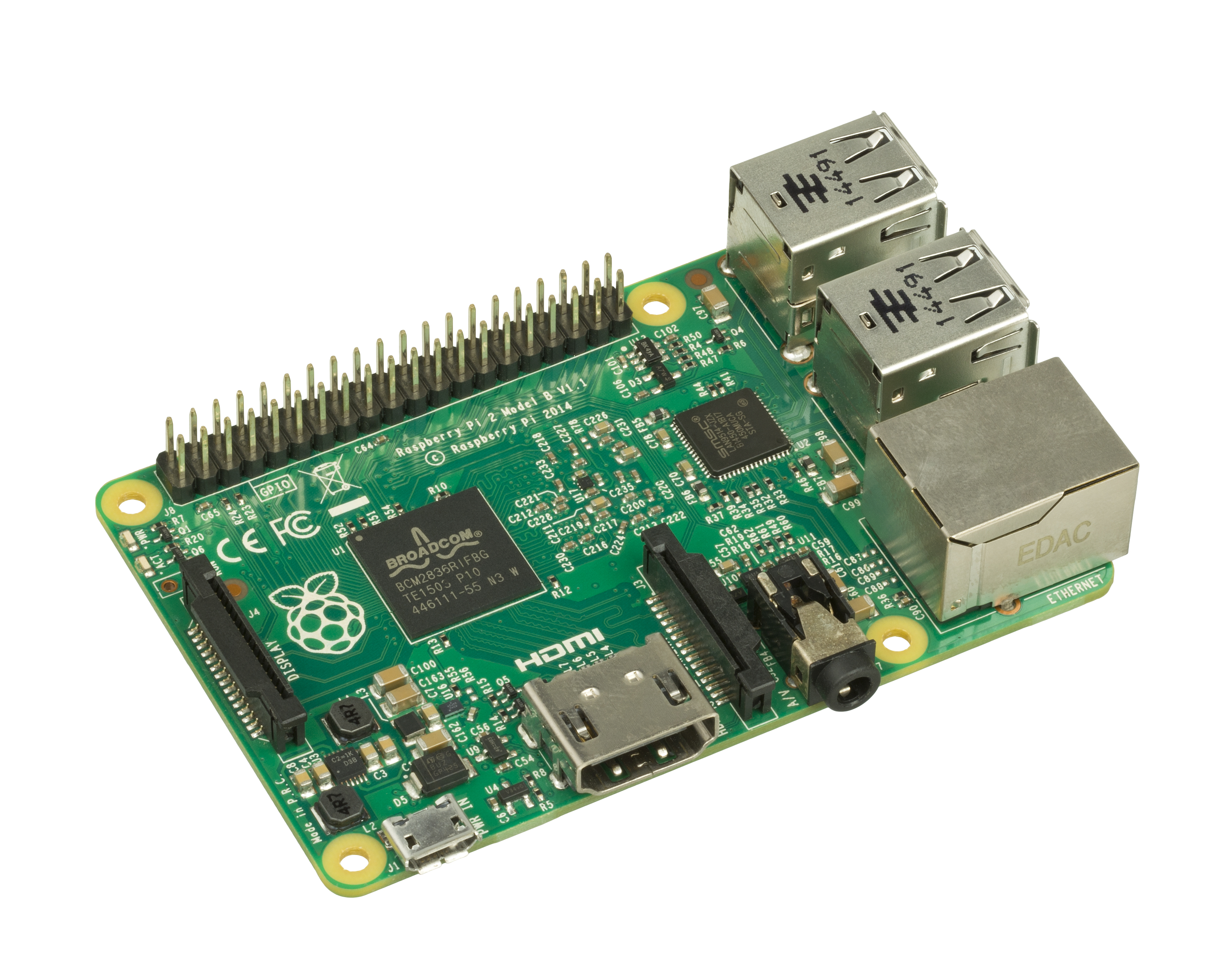 The Raspberry Pi 2 (model B), showing an HDMI port, audio/video port, Micro USB power input and two ribbon connectors. The Raspberry Pi 2 is an inexpensive ($35) and self-contained micro-computer that features a 900 MHz, 32-bit quad-core ARM processor and 1 GB of RAM. Built by the Raspberry Pi Foundation, it is designed to be an easy and accessible platform to promote computer science. The Pi has also become a popular computer for hobbyists, who use it for personal projects, video game emulators and digital media playback.